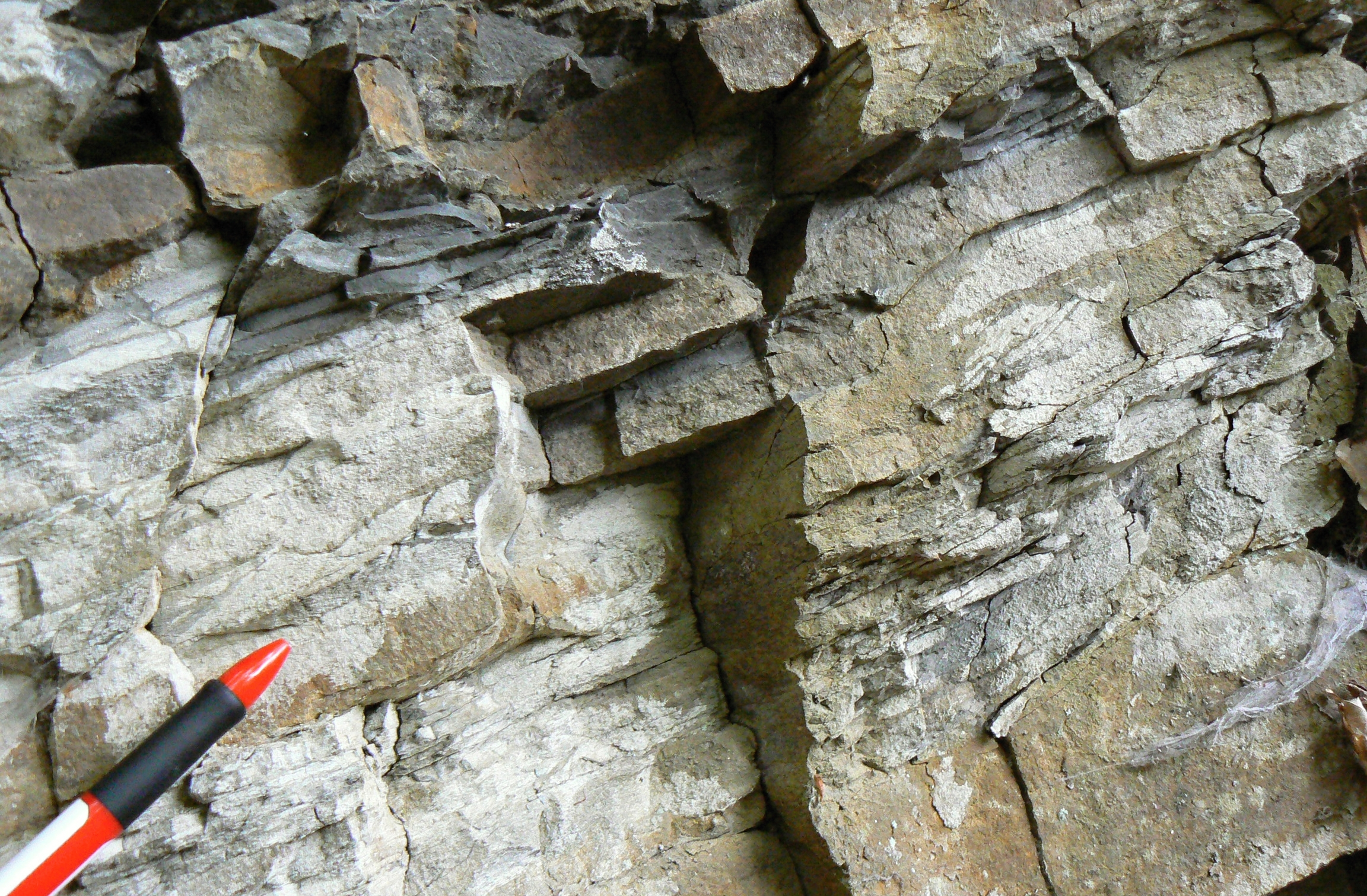 Lacustrine sediments in Boskovice Graben (Permian age) with fossils of the fishes, near Neslovice in Brno-venkov District